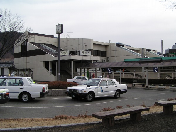 Enzan Station north exit, Kōshū, Yamanashi, Japan